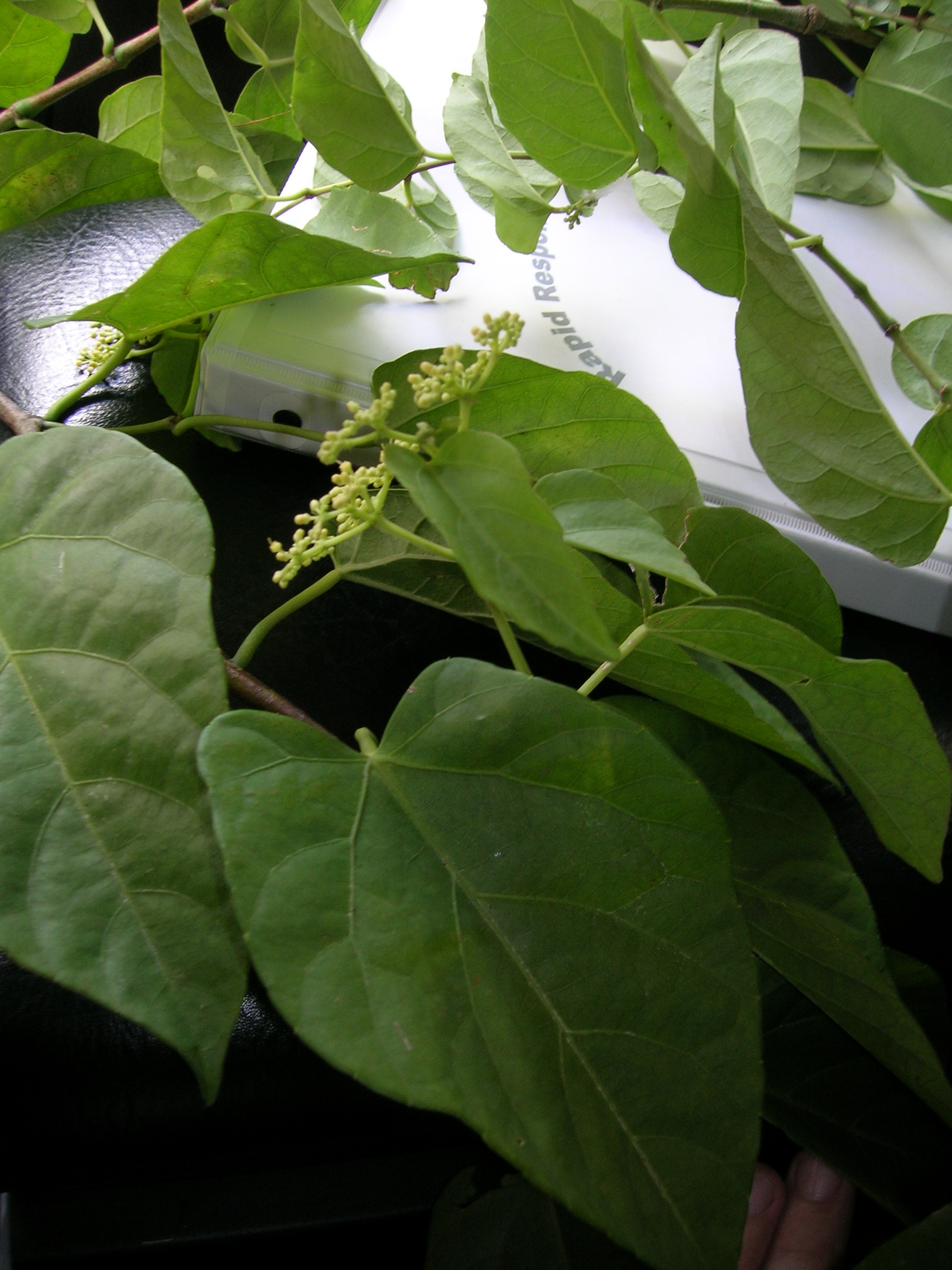 Cissus verticillata (leaves and flowers). Location: Oahu, Waimanalo